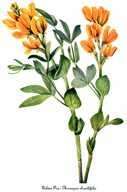 Watercolor painting of Thermopsis_rhombifolia.